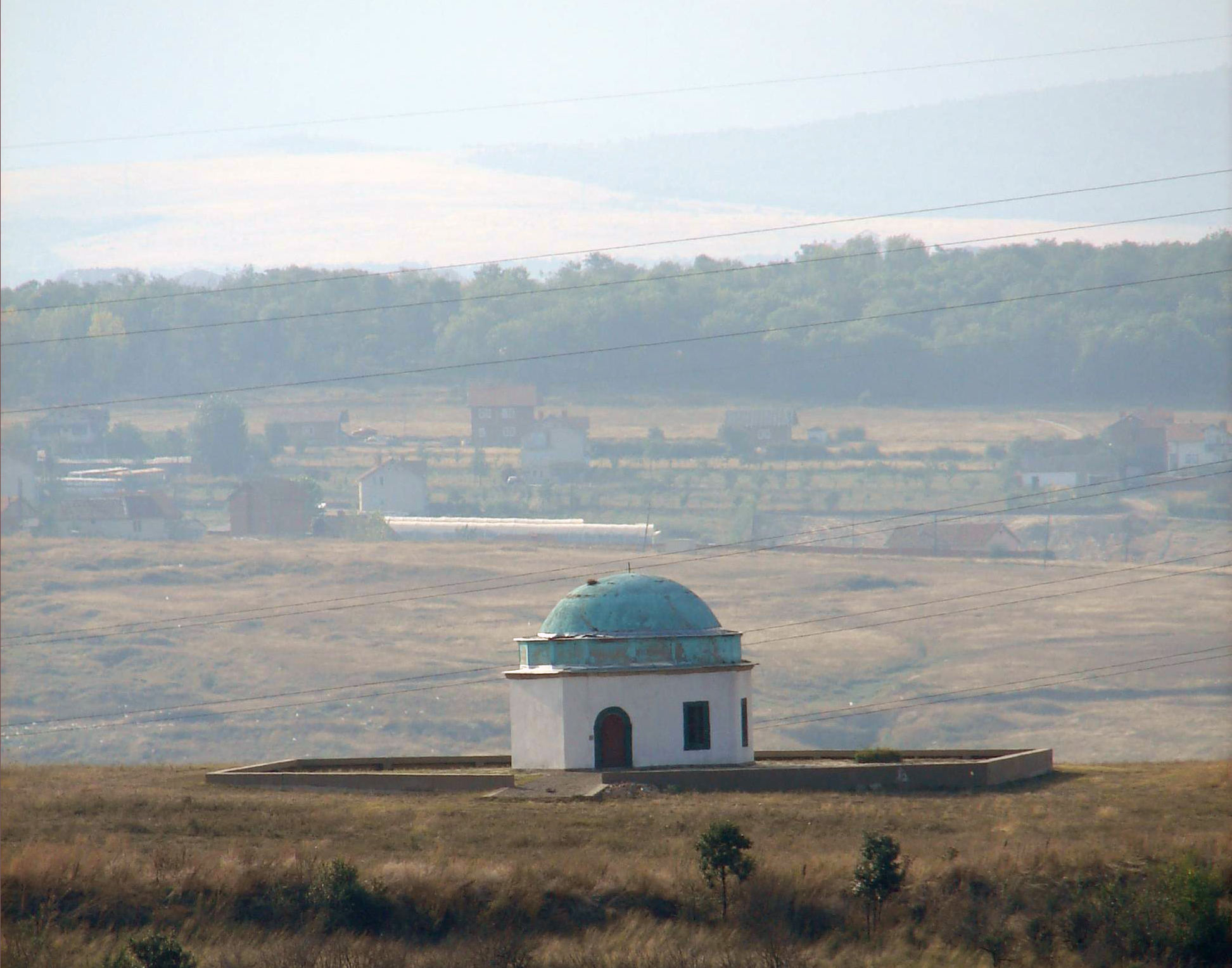 The tomb of sultan Murad I from Kosovo Polje Tower